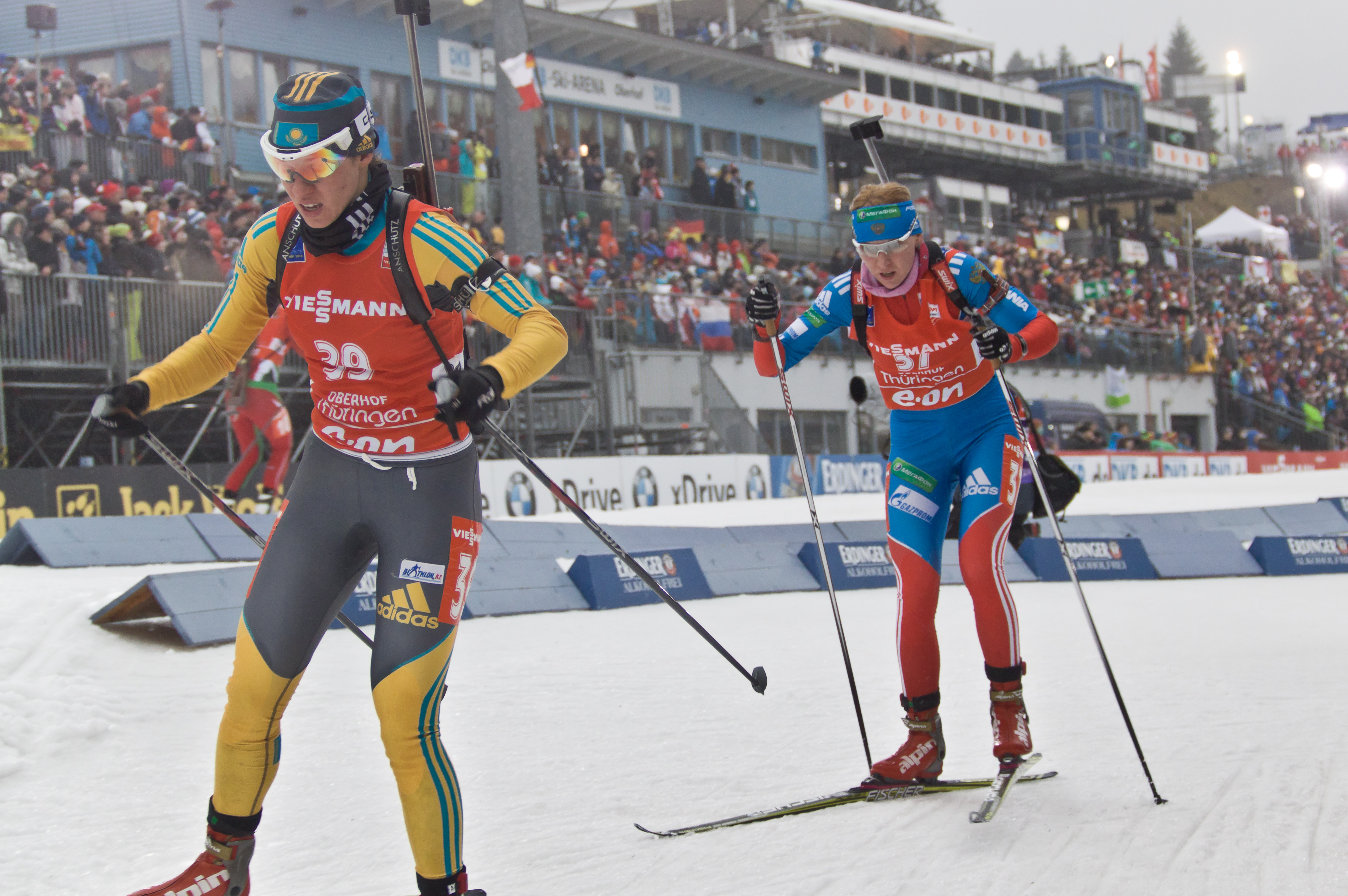 Russian biathlete Ekaterina Glazyrina in the world cup pursuit race in Oberhof.